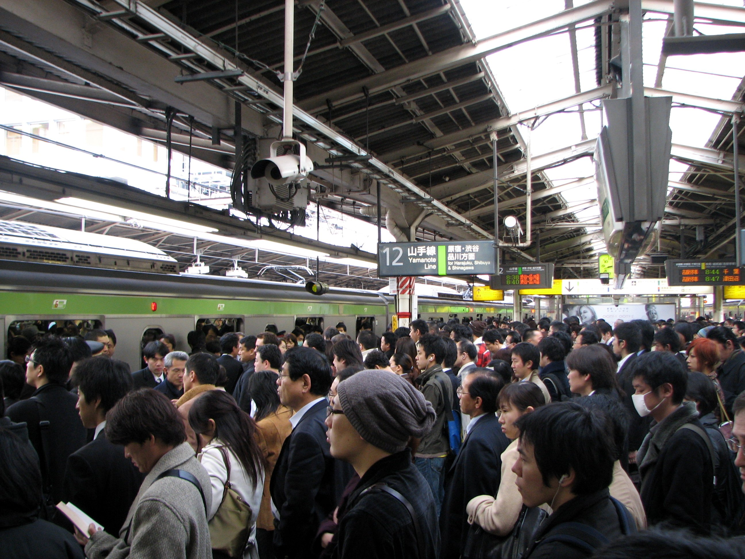 Rush hour at Shinjuku station, Yamanote Line (Left) and Chūō-Sōbu Line Local Service(Right)